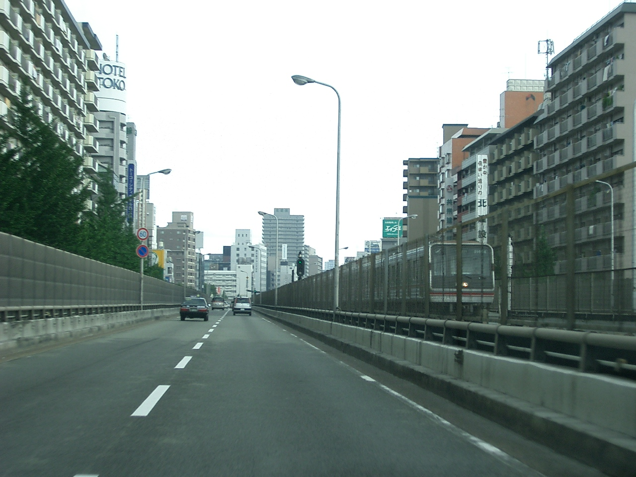 It presents Shin-Mido Suji (新御堂筋 - New "Mido" Avenue) in Higashi-Mikuni, Yodogawa-borough, Osaka-city, Japan.